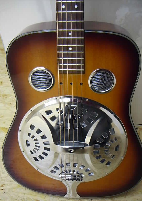 Dobro-style resonator guitar made by Hohner